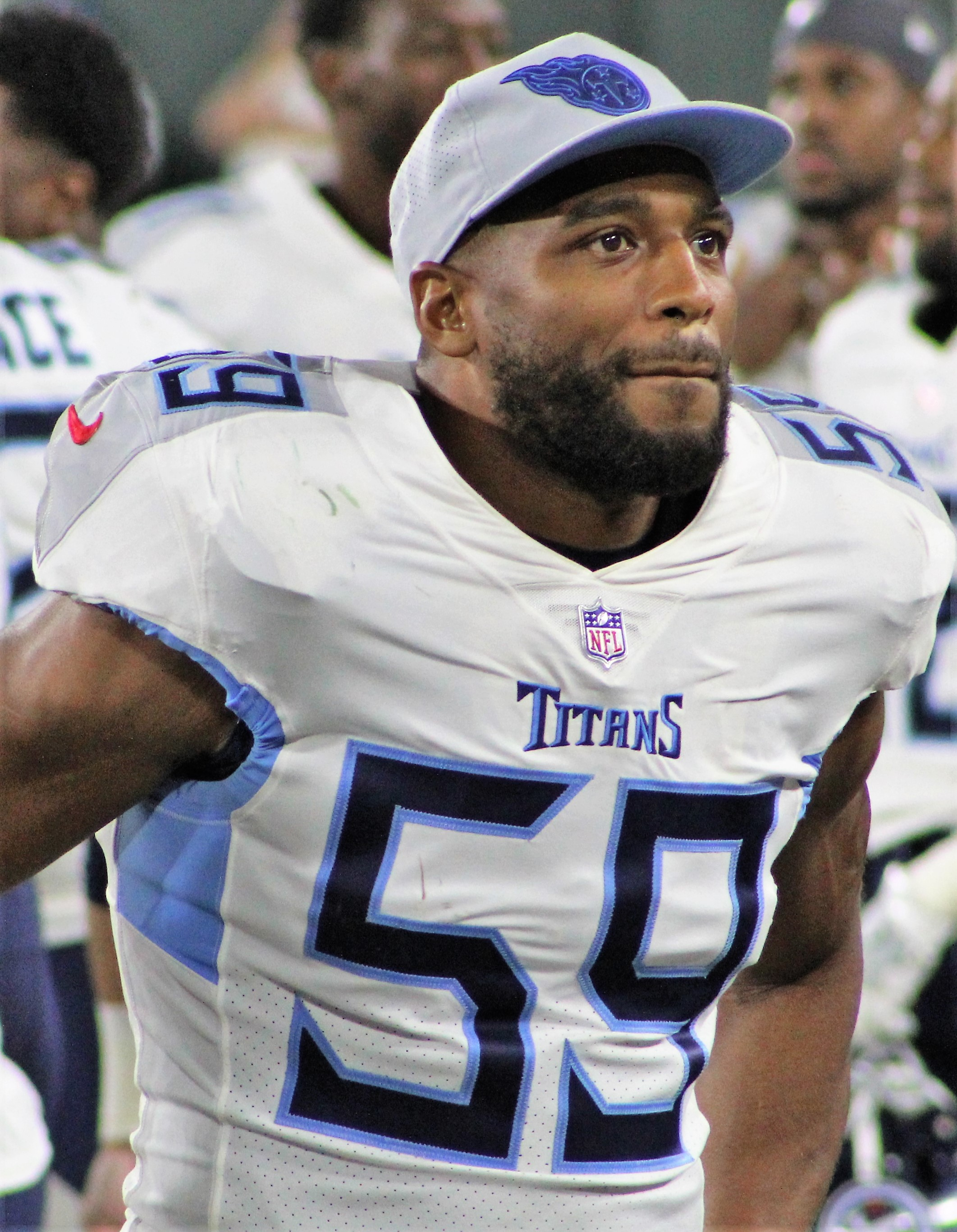 Wesley Woodyard, Tennessee Titans at Green Bay Packers (Preseason), August 9, 2018